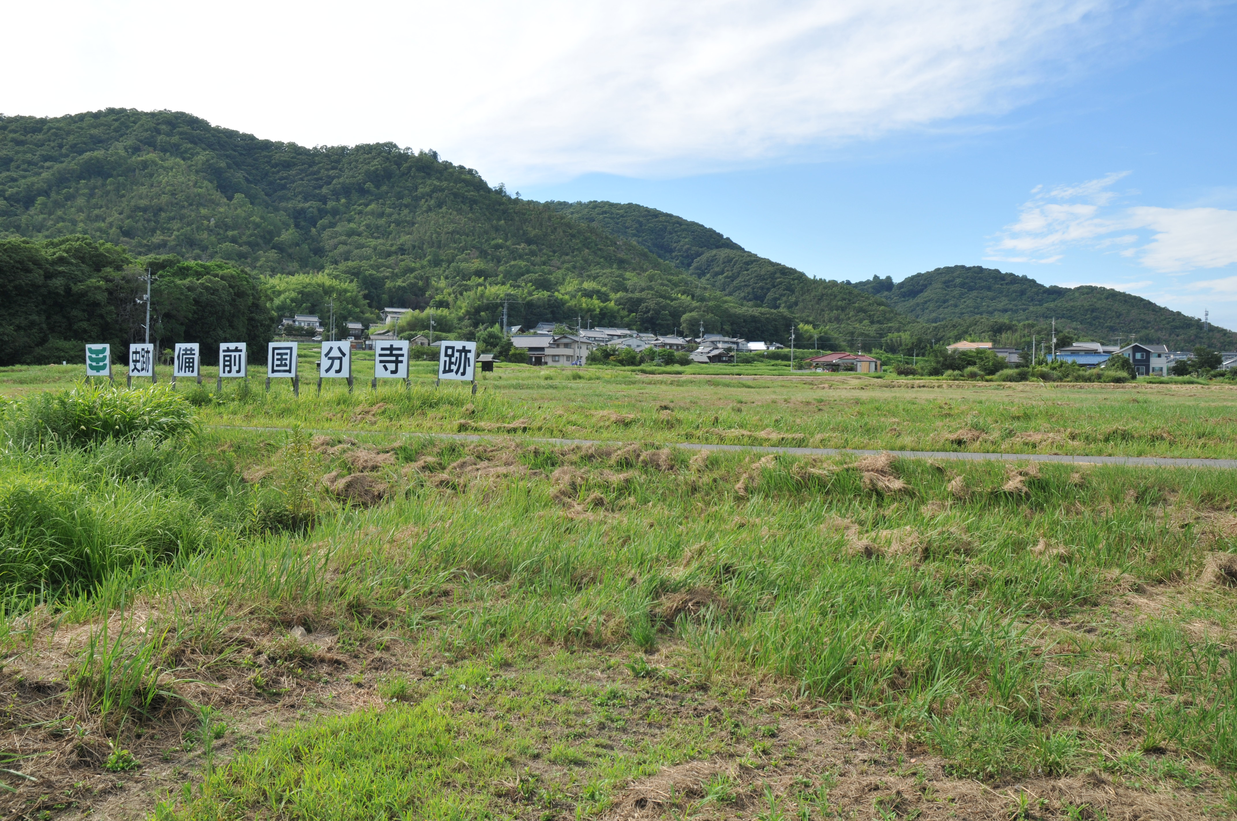 view of Bizen Kokubunji ruins